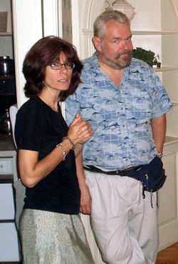 Photo of Kathe Koja and Walter Jon Williams, cropped from original by uploader to more centrally present the individuals whose article the image is to be used to illustrate